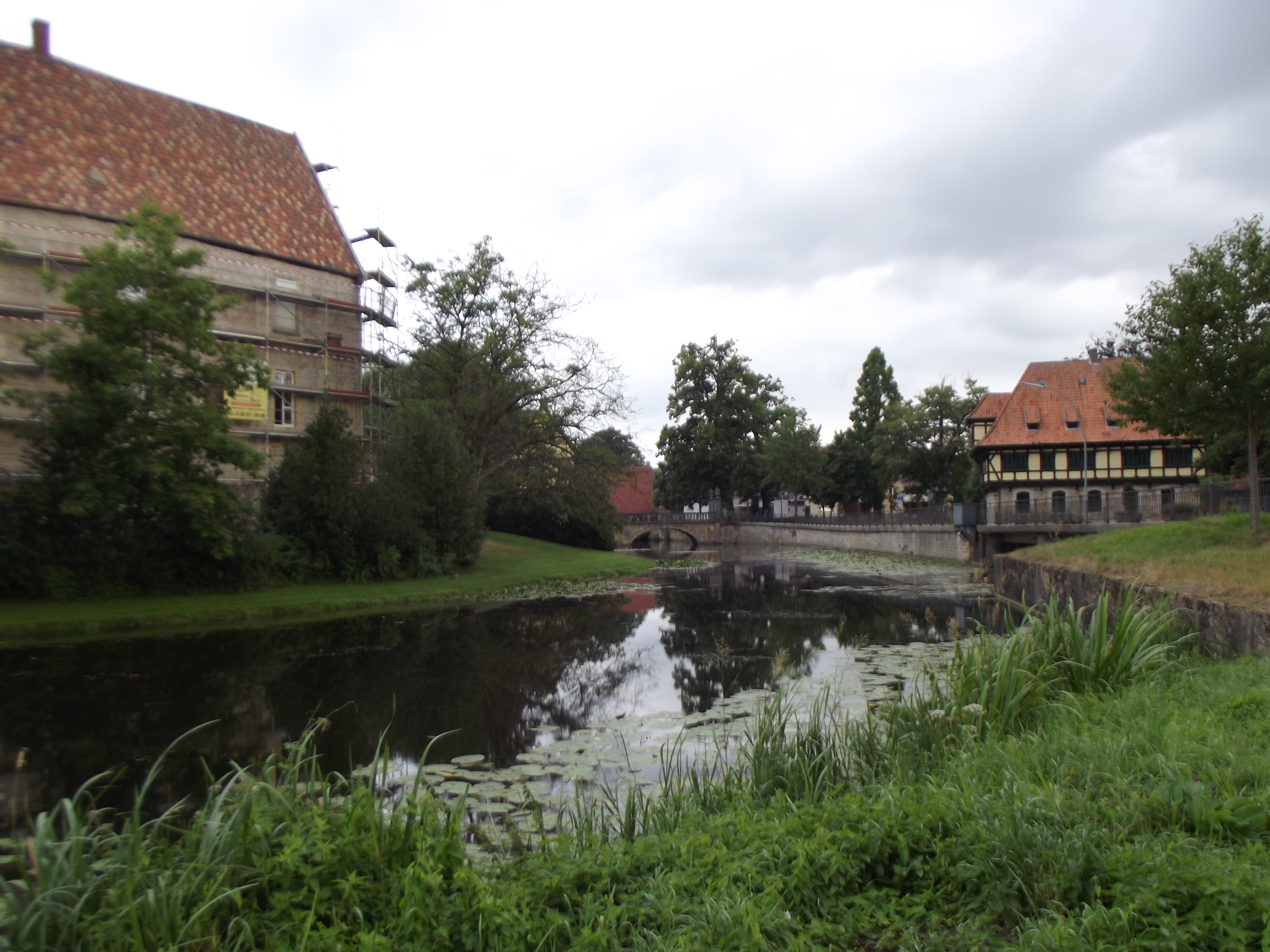 Interesting pic for people interested in castles and moats